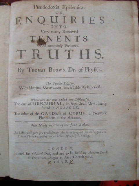 Sir Thomas Browne's 'Pseudodoxia Epidemica' -frontispiece to 1658 edition